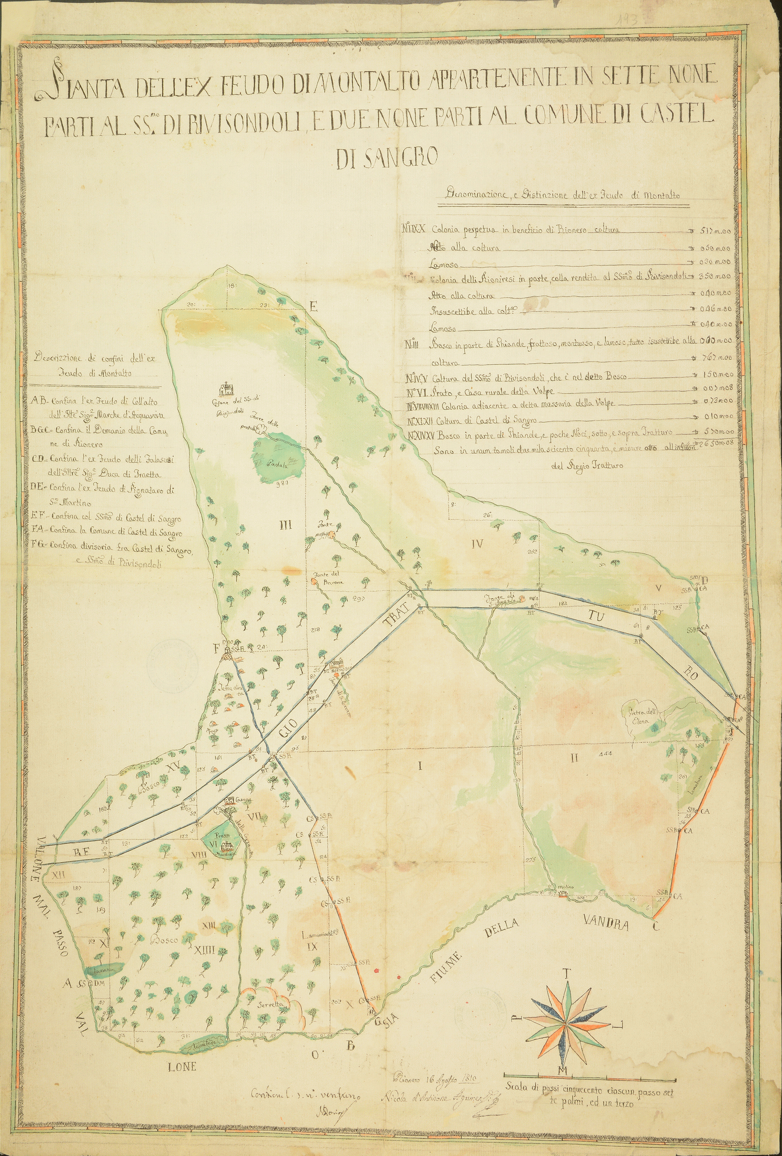 Pianta dell'ex feudo di Montalto appartenenti in sette none parti al SS.mo di Rivisondoli e due none parti al Comune di Castel di Sangro, a.1810